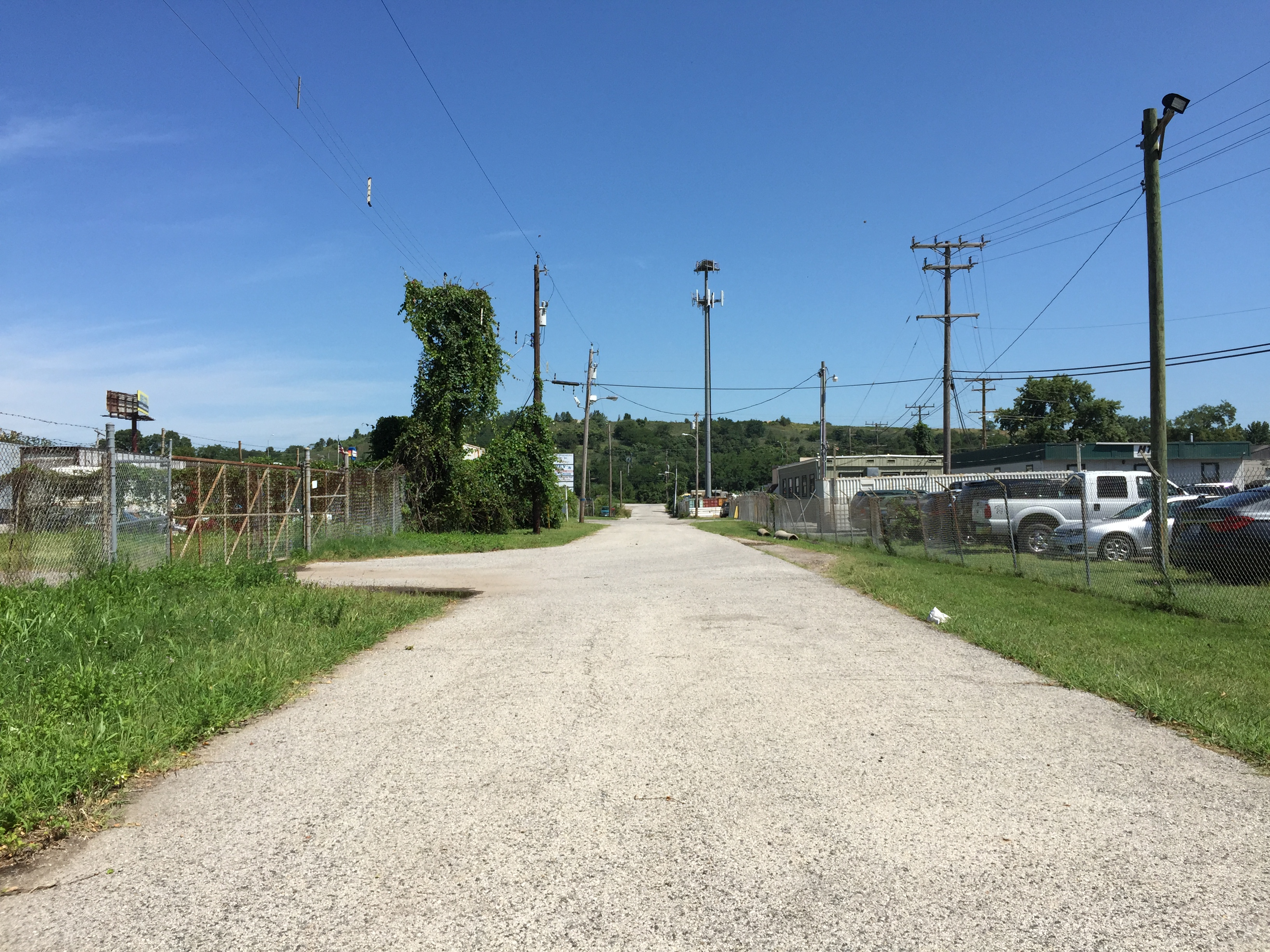 View north at the south end of Maryland State Route 172 (Arundel Cove Avenue) in Pasadena, Anne Arundel County, Maryland